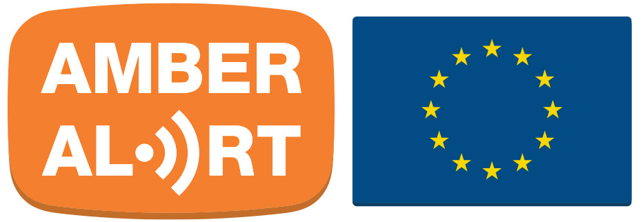 Logo AMBER Alert Europe